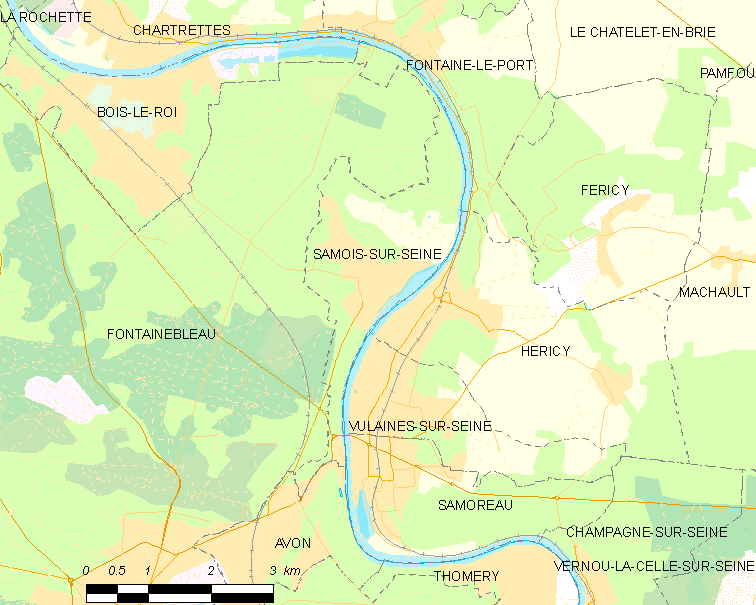 Map of French municipality Samois-sur-Seine